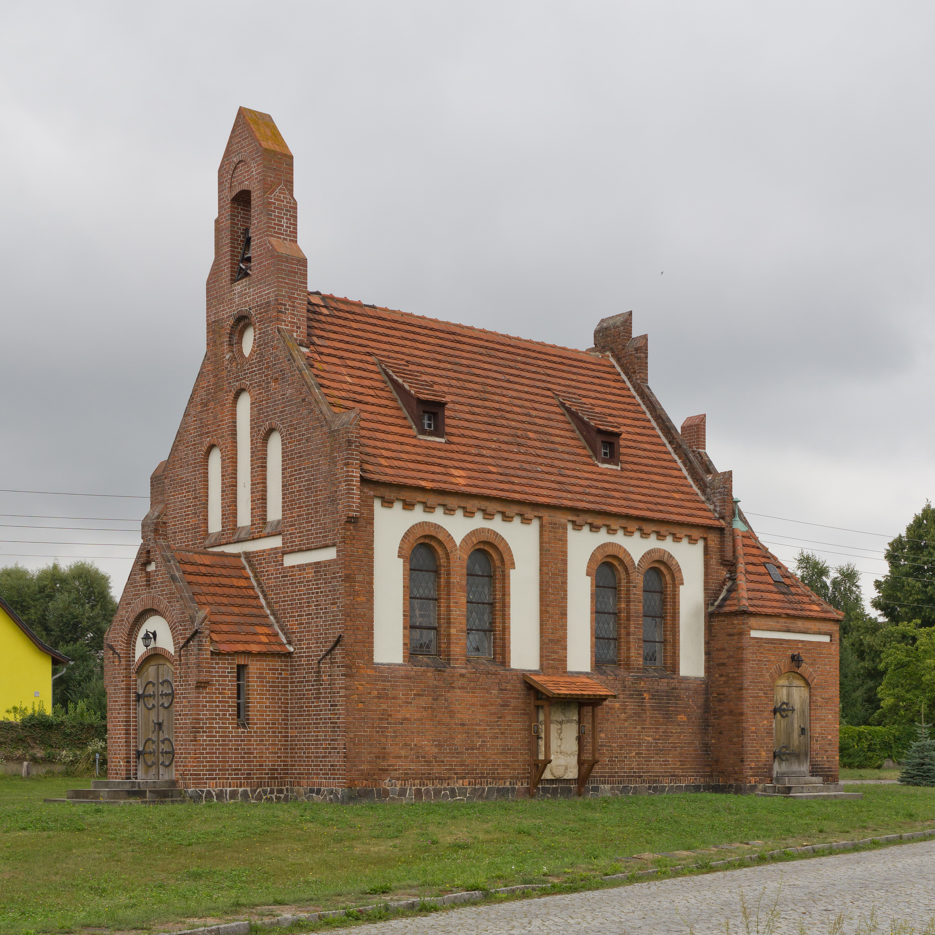 Village church in Leeskow (Jamlitz), Brandenburg, Germany